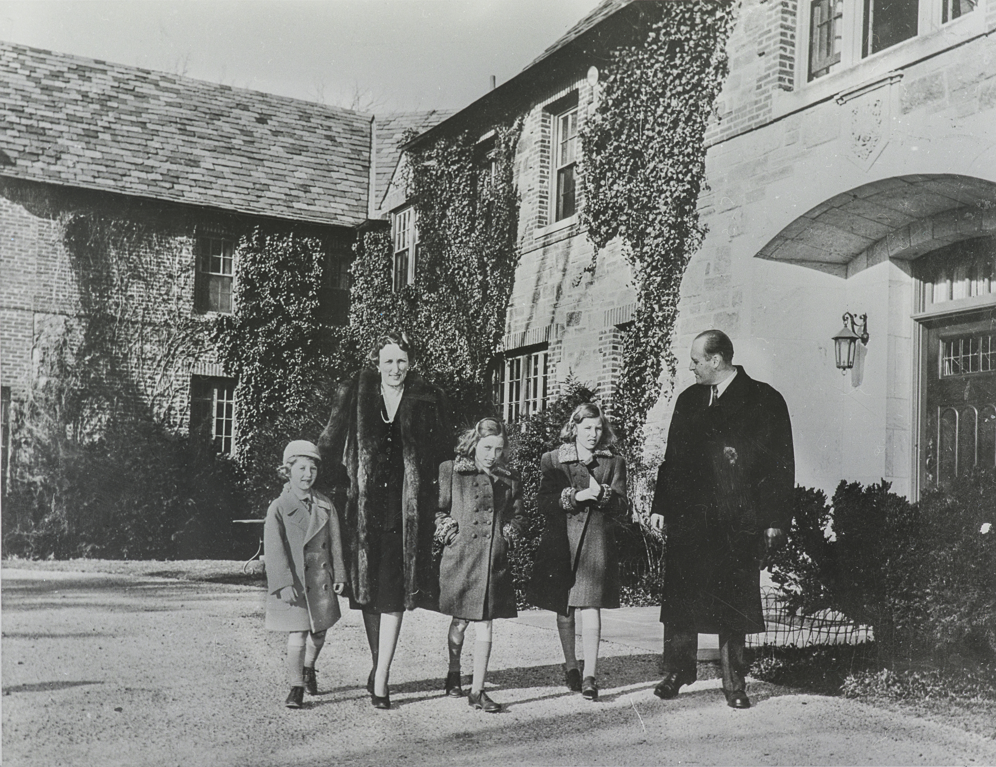 Crown Prince family gathered outside Pook's Hill in Bethesda, Maryland, USA. Crown Prince Olav, Crown Princess Märtha, Princess Ragnhild, Princess Astrid, Prince Harald.